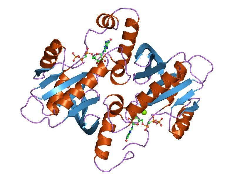 Cartoon representation of the molecular structure of protein registered with 2bz0 code.